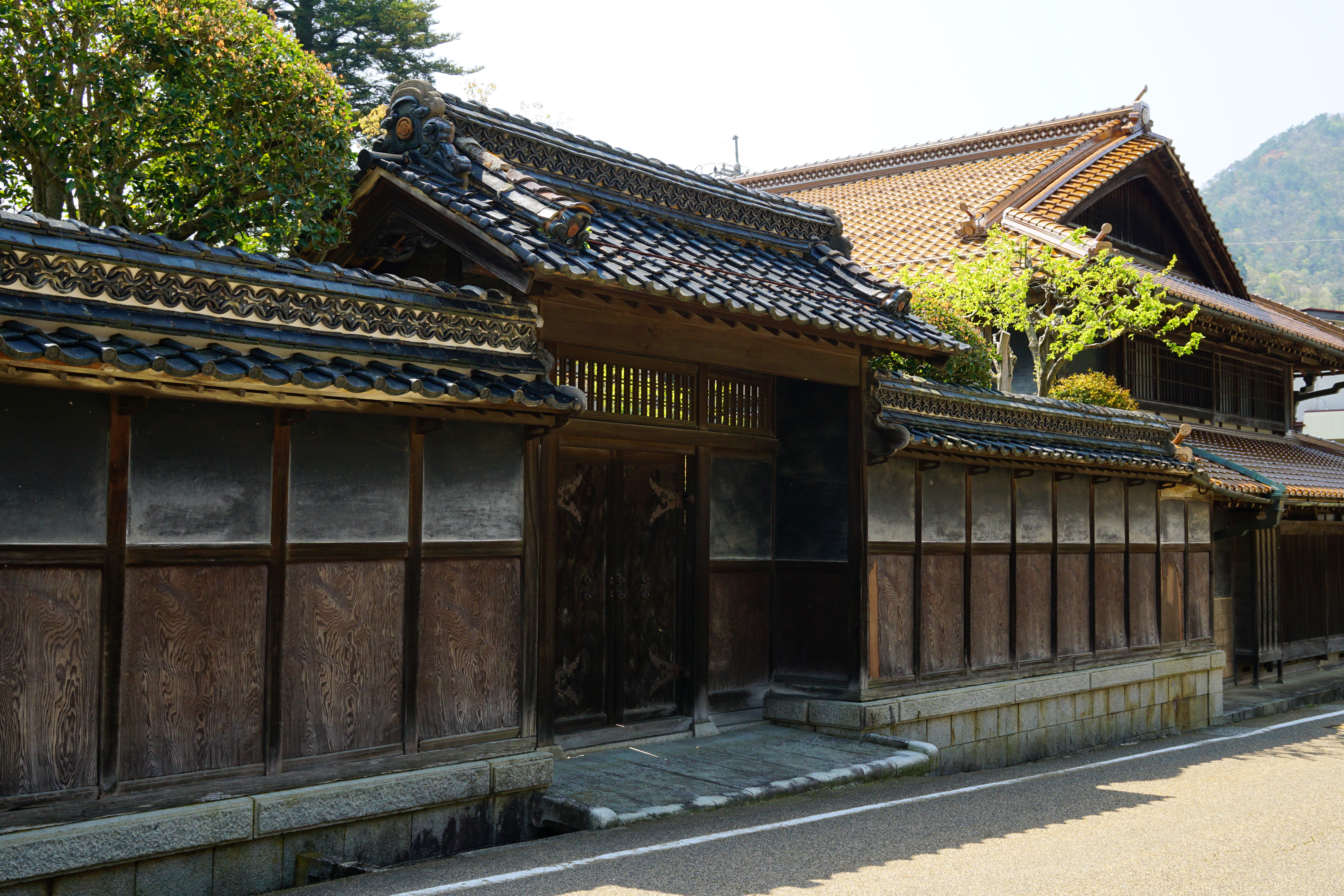 Yonehara House in Chizu, Tottori prefecture, Japan